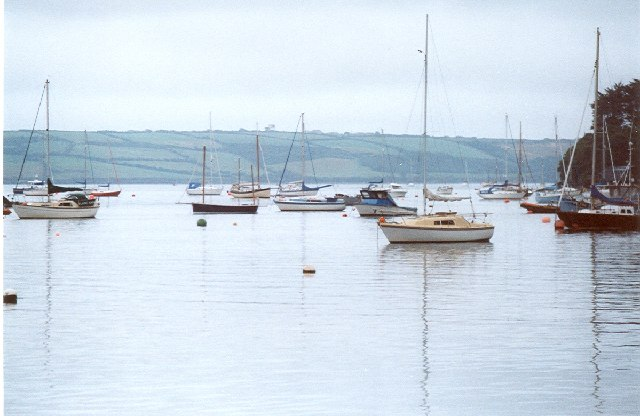 Restronguet Creek. Taken from the Pandora Inn looking out to sea